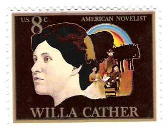 1973 US stamp honoring Willa Cather